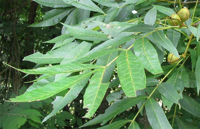 The leaves and immature nuts of a bitternut (a hickory species) tree.